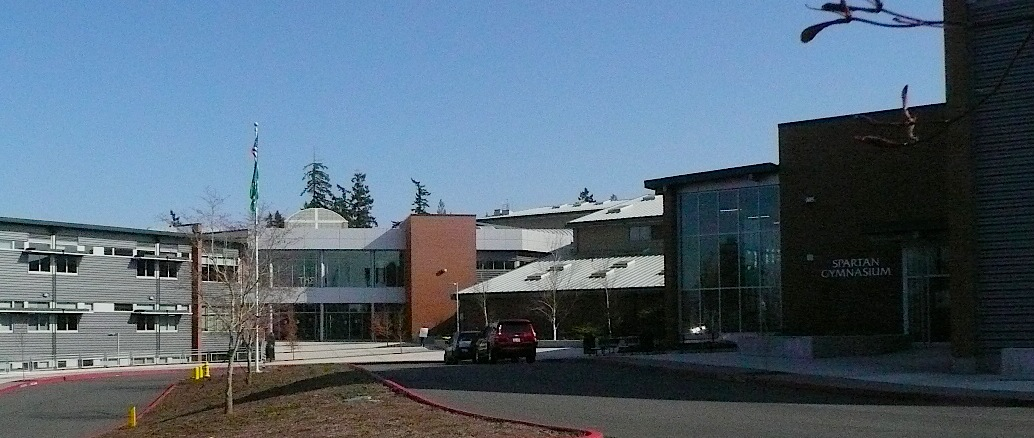 New main entry, classroom wing, and gym - added in 2010